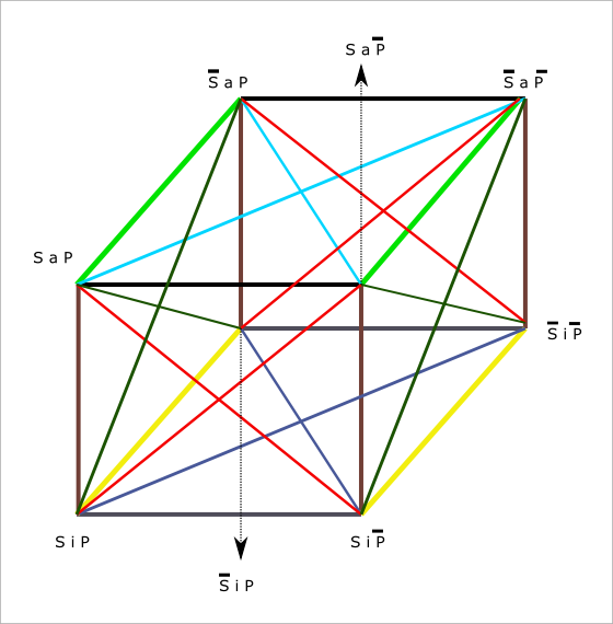 Note multiple invalid crossings between side diagonals and the hexahedron’s edges